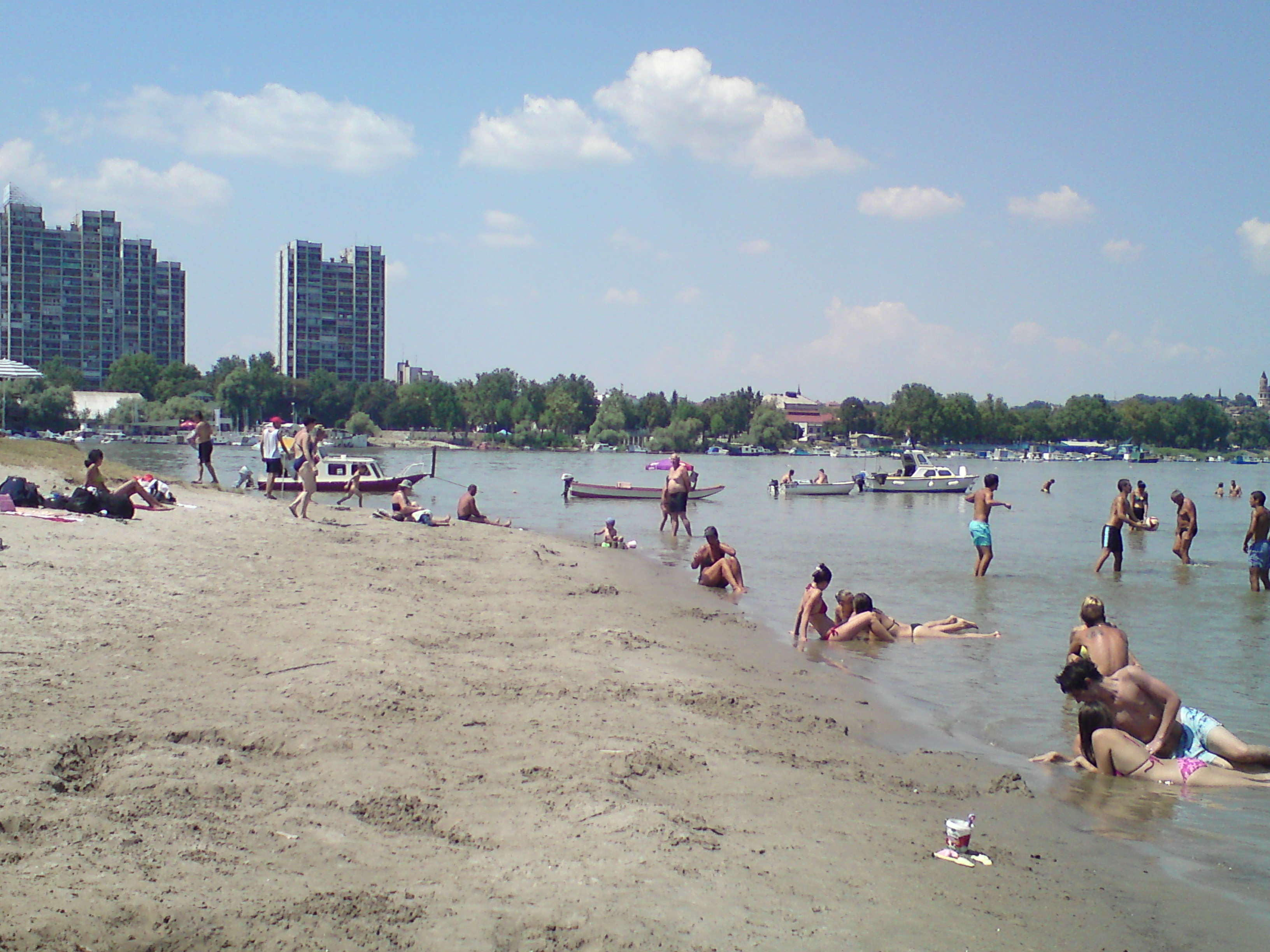 Lido beach at Veliko ratno ostrvo (Great war island) in the Danube river in Belgrade, Serbia. In the background, Zemun. To the left, highrising residential buildings, to the right Gardoš Tower.